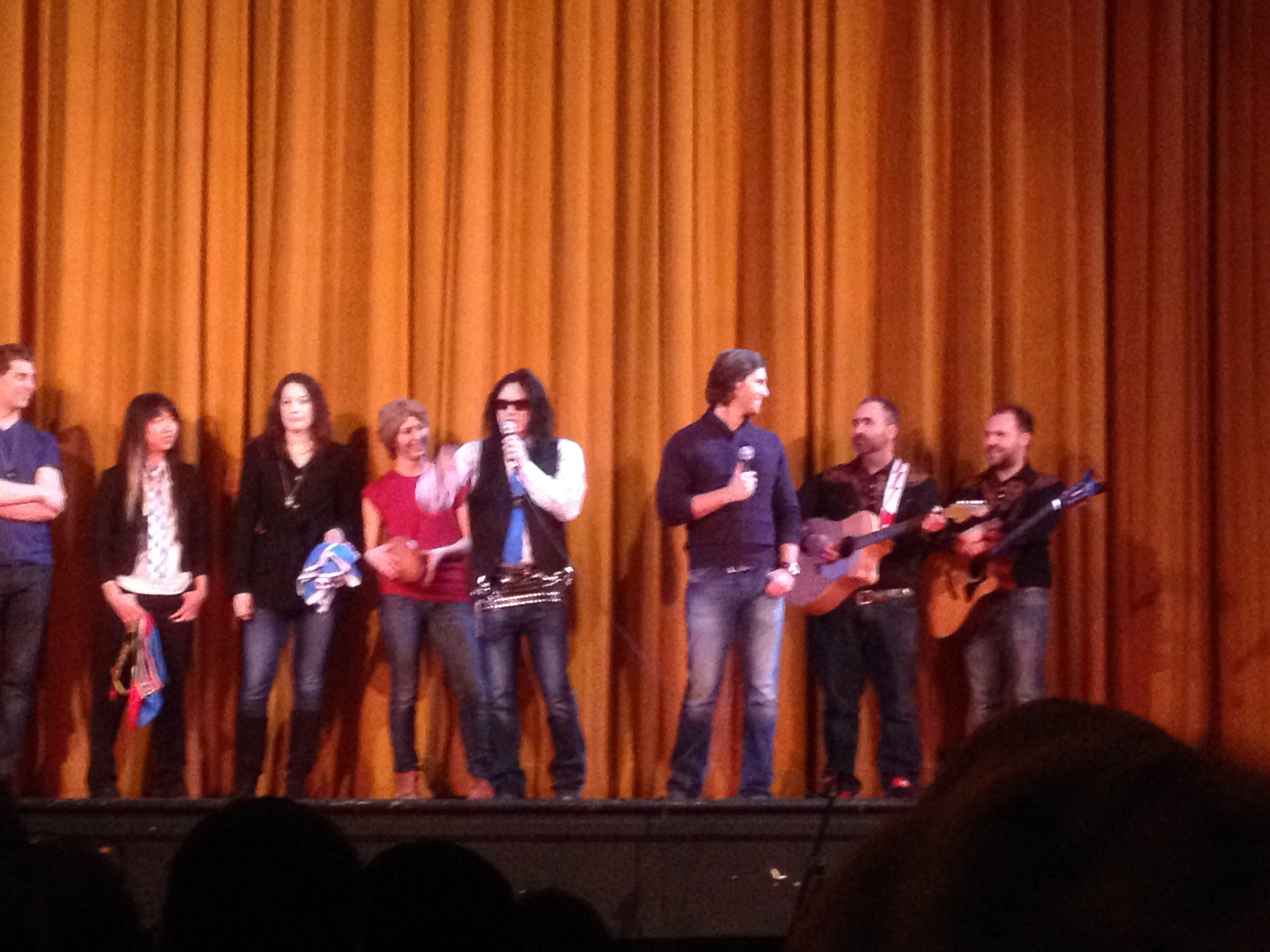 Tommy Wiseau, Greg Sestero, local musicians The Karpinka Brothers and some audience members on stage at the Roxy Theatre. Wiseau and Sestero took questions from audience members before the showing of The Room.